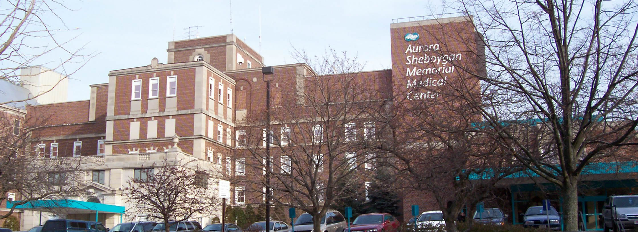 Aurora Sheboygan Medical Center in Sheboygan, Wisconsin, USA. It is a hospital, formerly named "Sheboygan Medical Center", and is owned by "Aurora". Cropped from the original